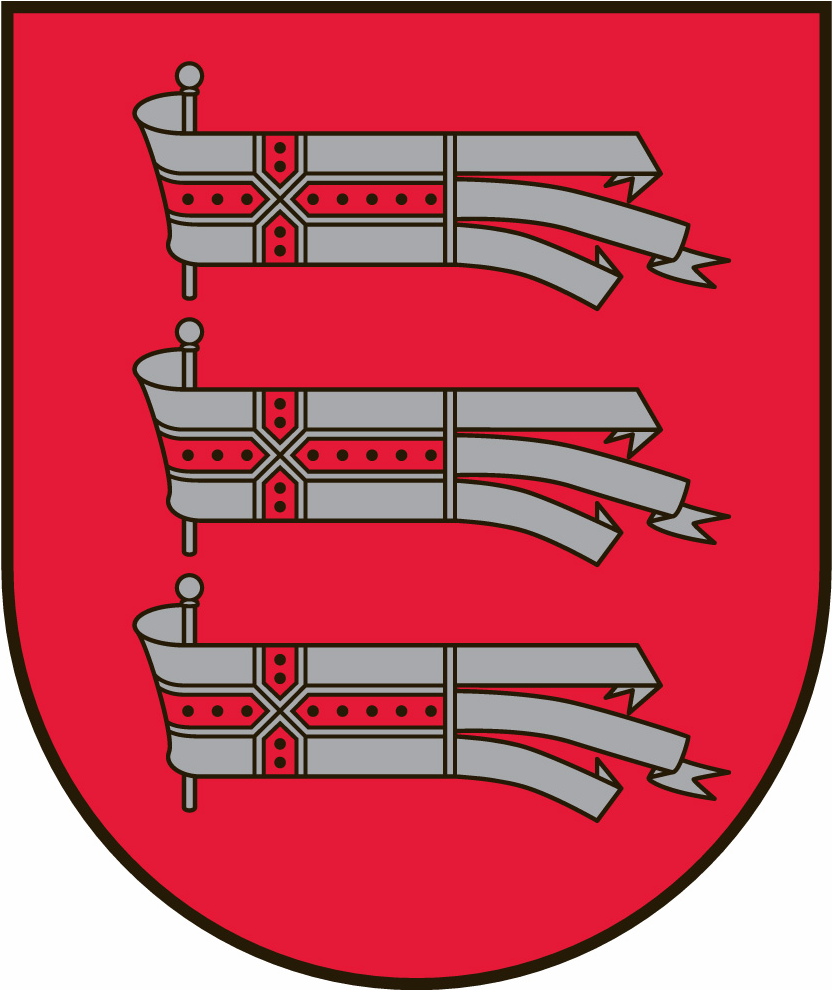 Coat of arms of Daugavpils Municipality, Latvia.